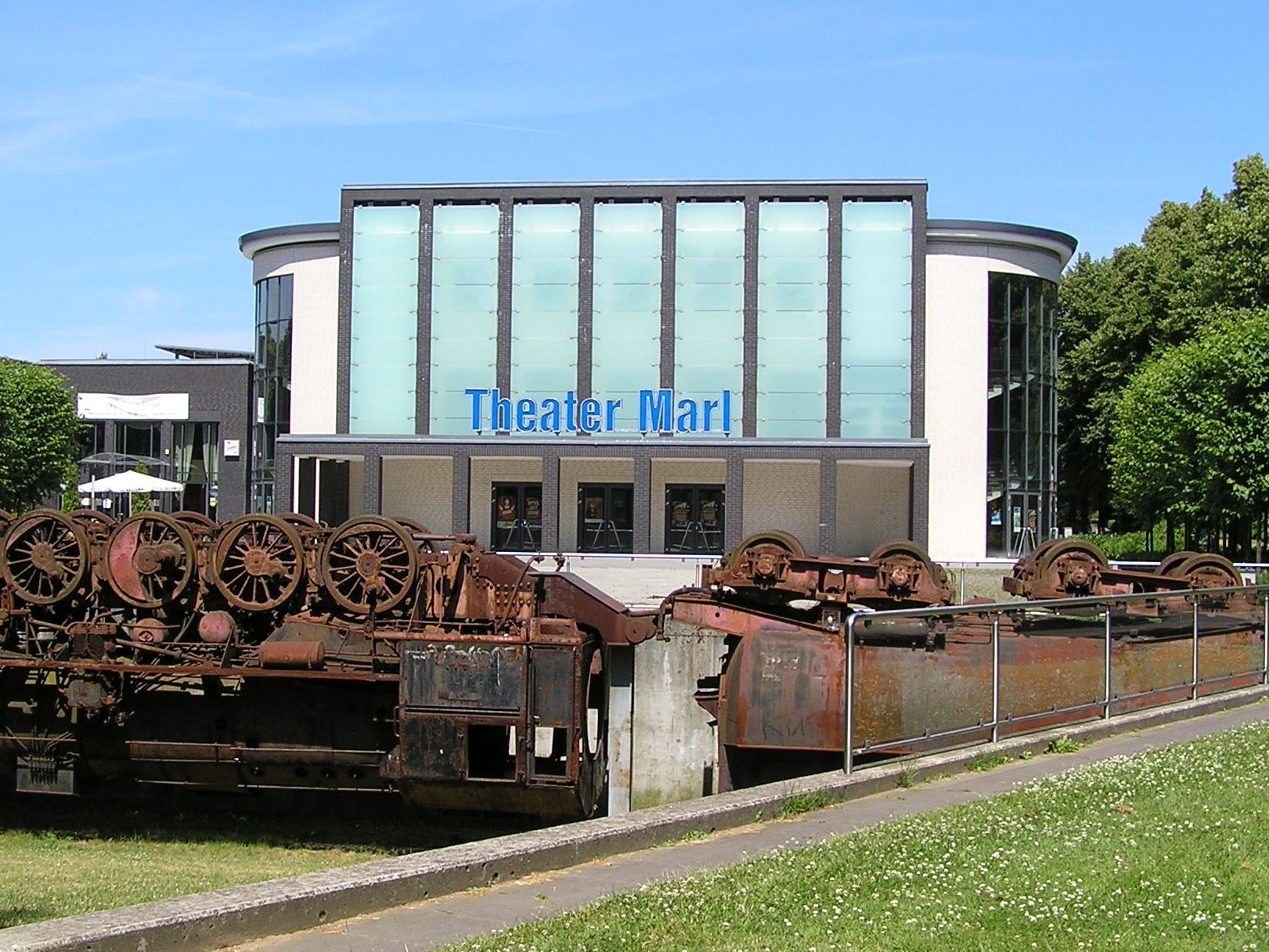 Theatre of Marl, Germany